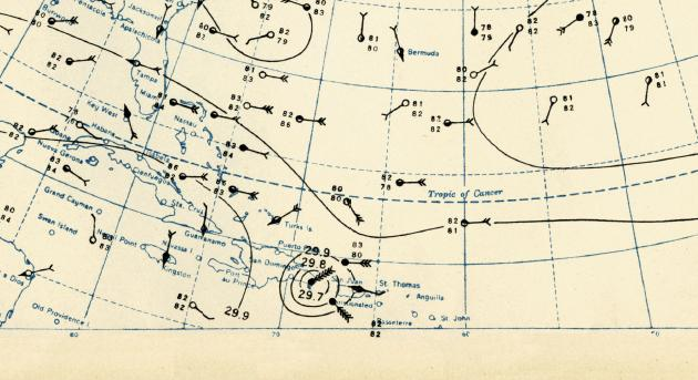 Cropped Version of September 3, 1930 Weather Map